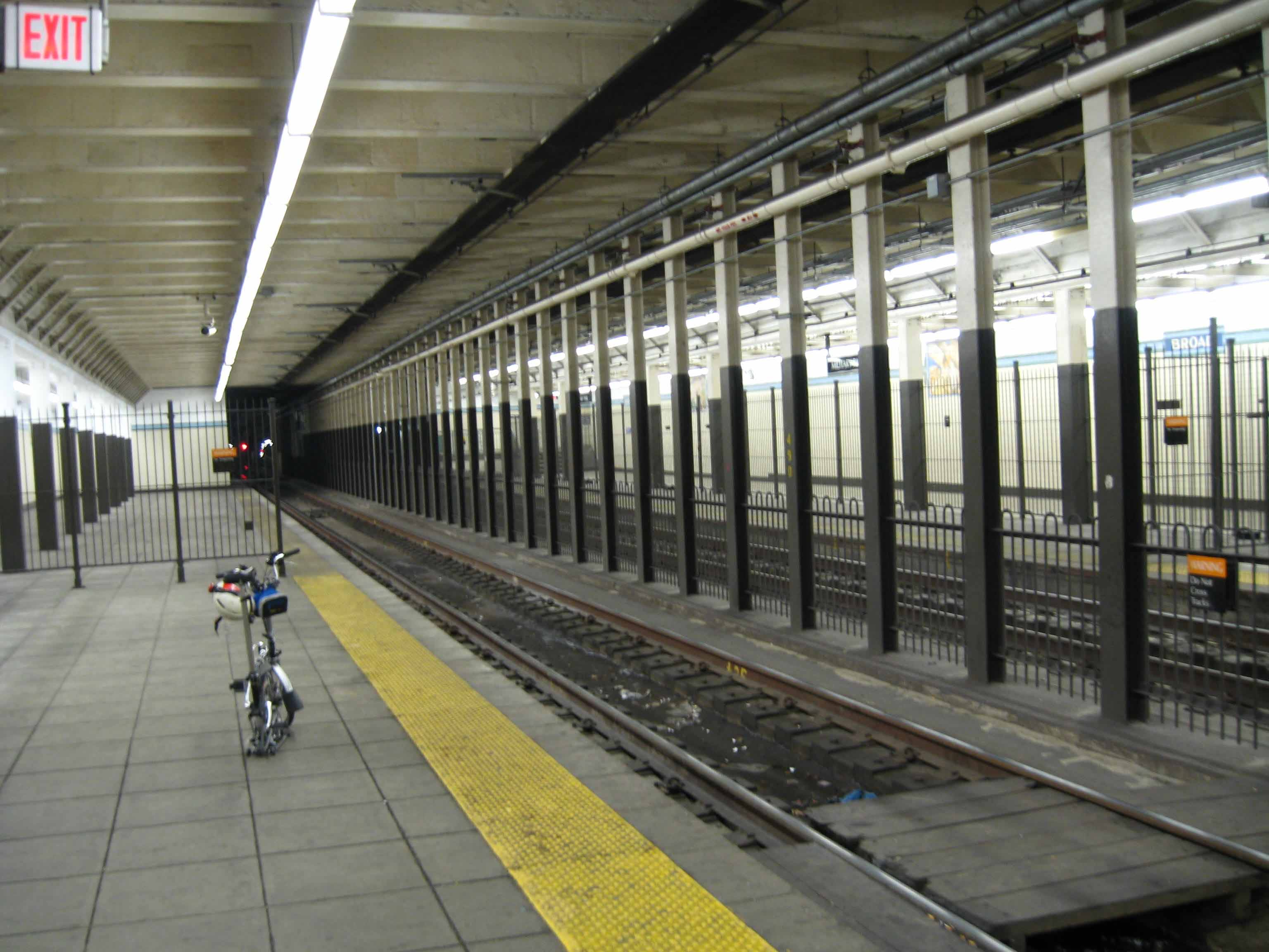 Military Park Station looking southwest from northbound platform. Bicycle is photographer's.